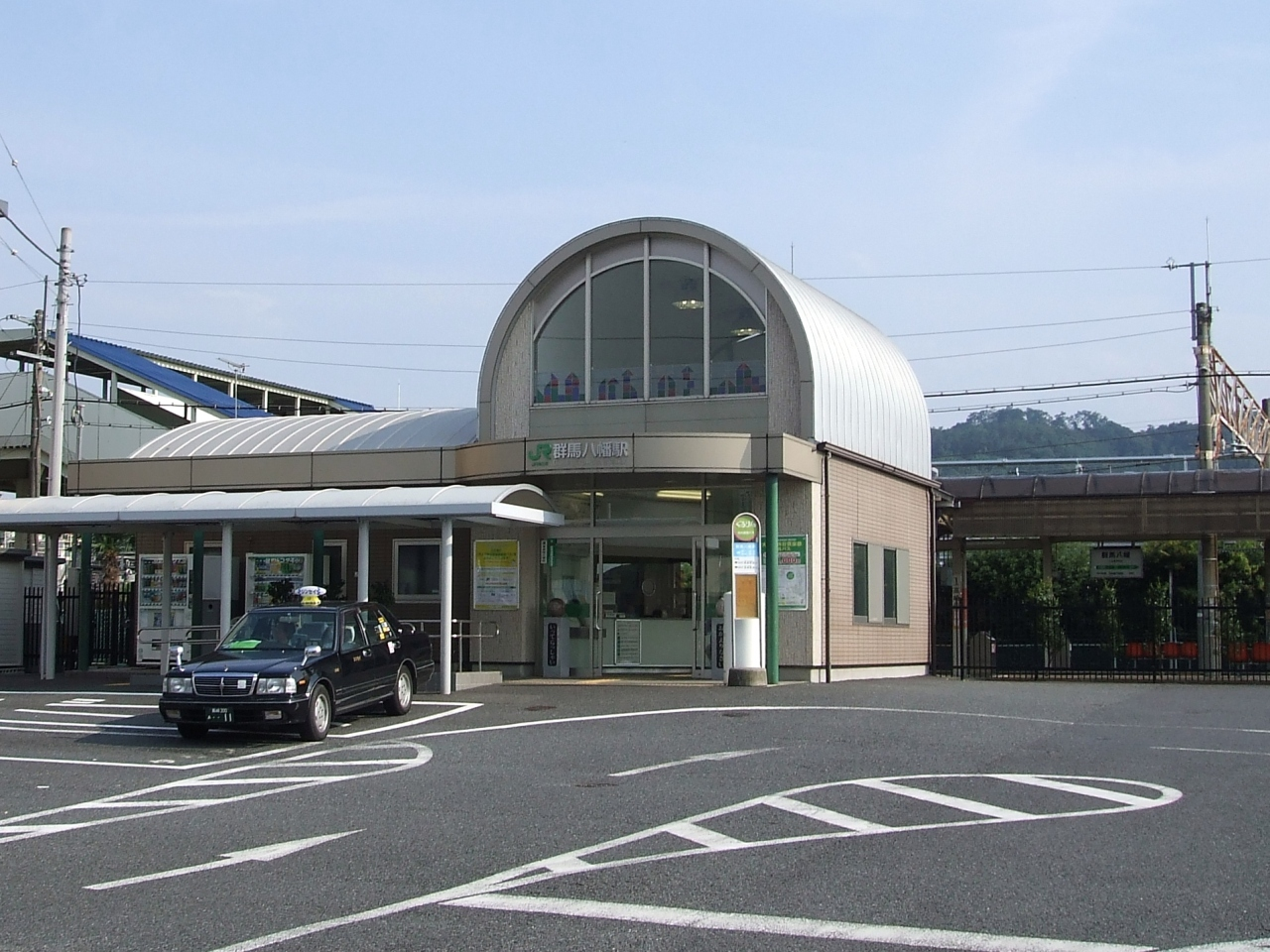 The station office of Gumma-Yawata Station